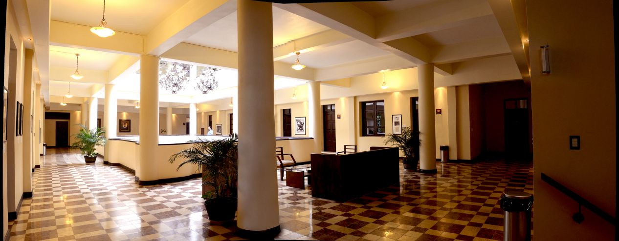 Lobby centro de arte y Cultura